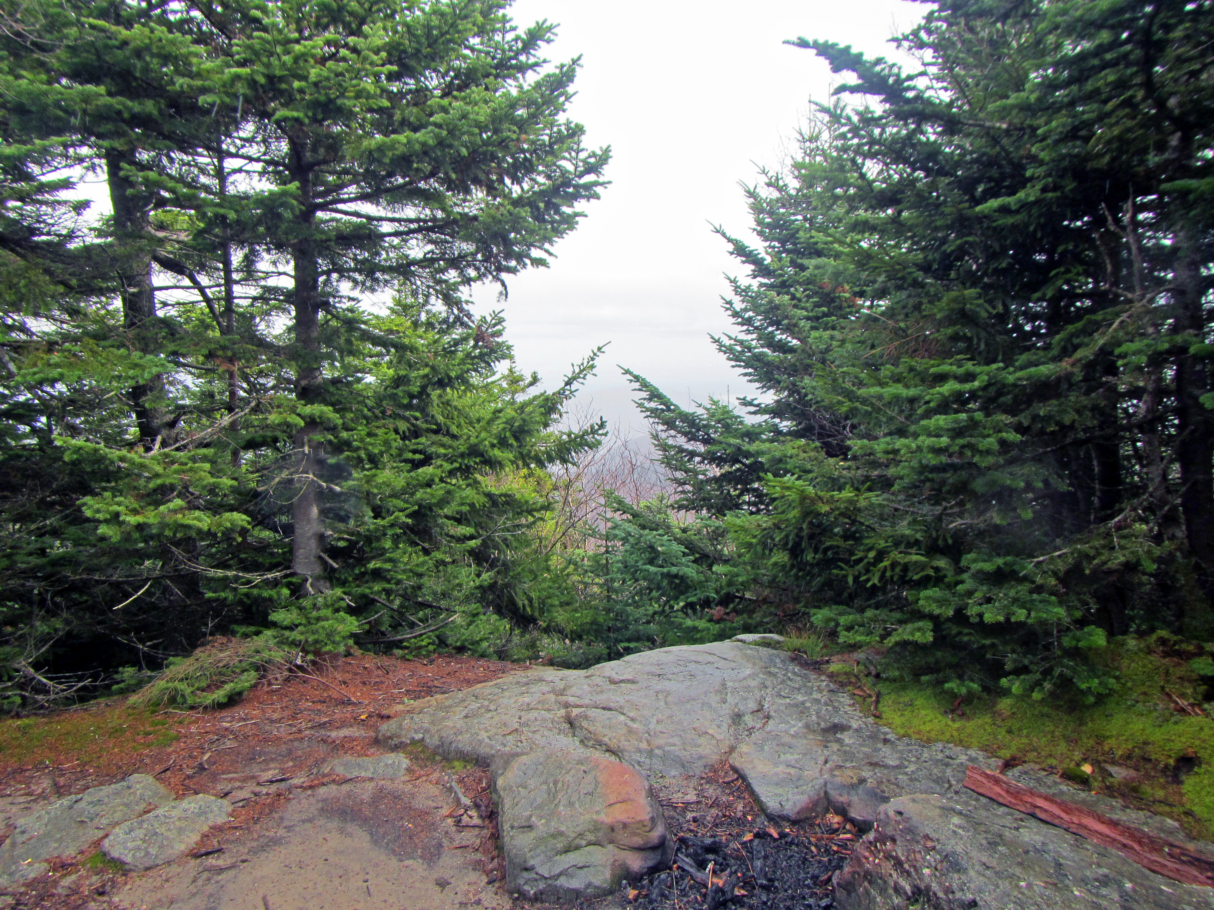 Summit of Cornell Mountain, at 3,860 feet (1,177 m) above sea level the ninth-highest peak in New York's Catskill Mountains